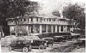 Picture of Grand Rapids Hotel during the opening in 1922.